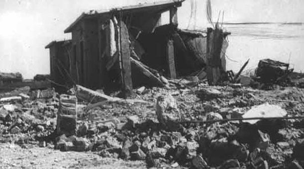 Bahr El-Baqar Massacre location, that bombing by Israeli Air Force in 1970